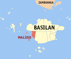 Map of the Basilan showing the location of Maluso